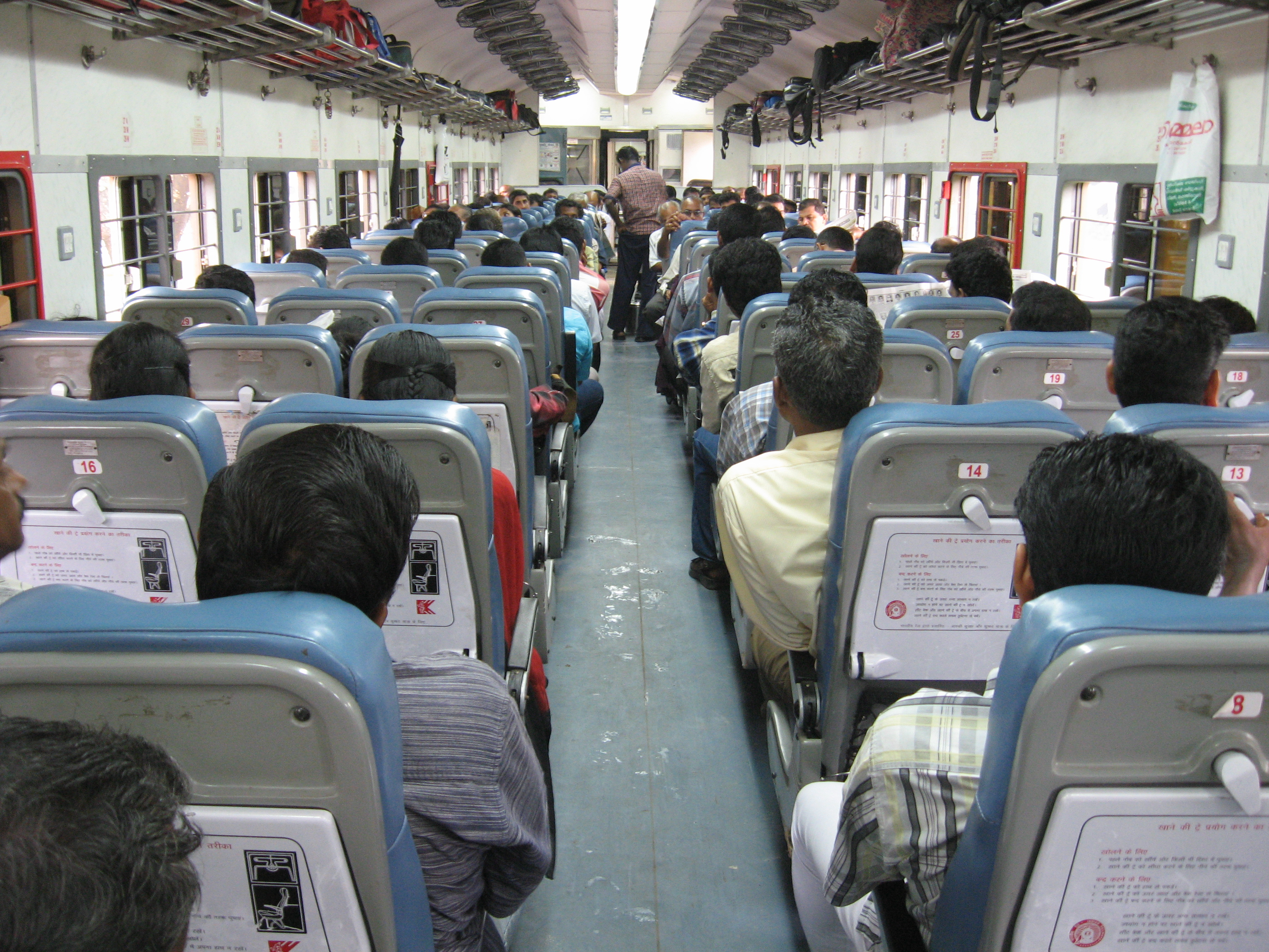 Janshatabdi train kerala india